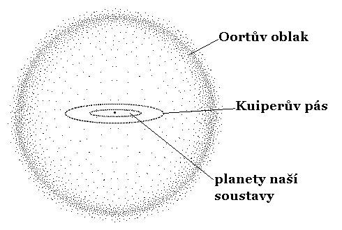 Oort cloud with czech description